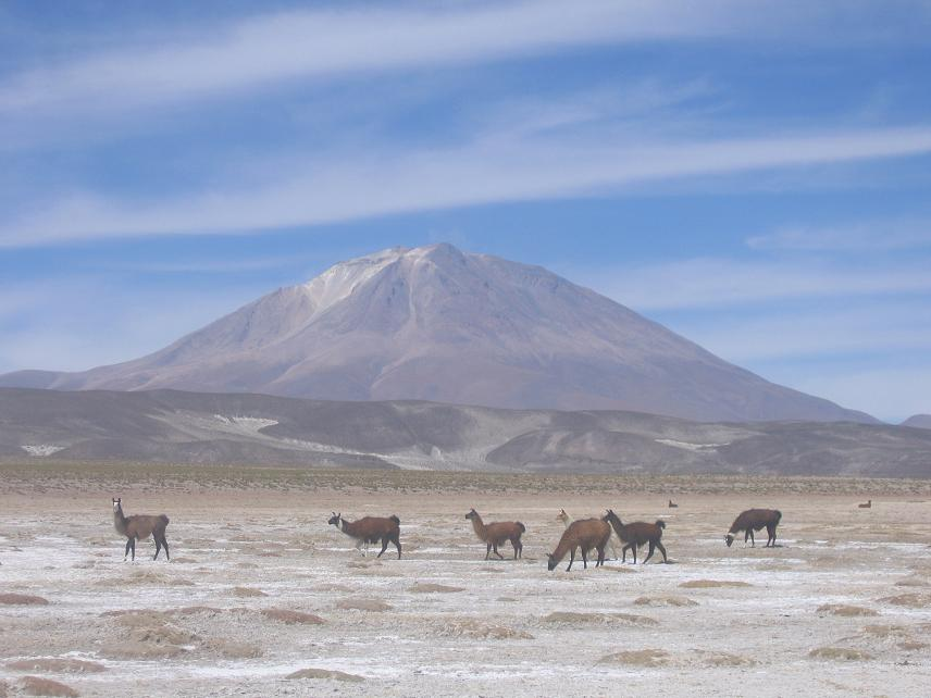 Several lamas in the Salar of Uyuni, in Bolivia.